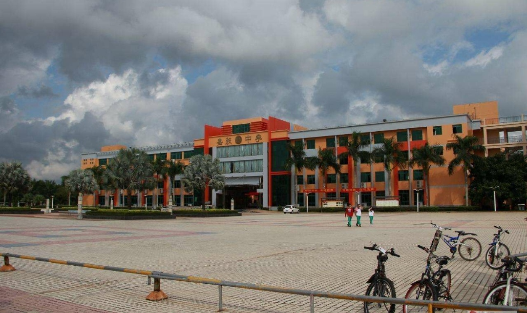 haiguischool